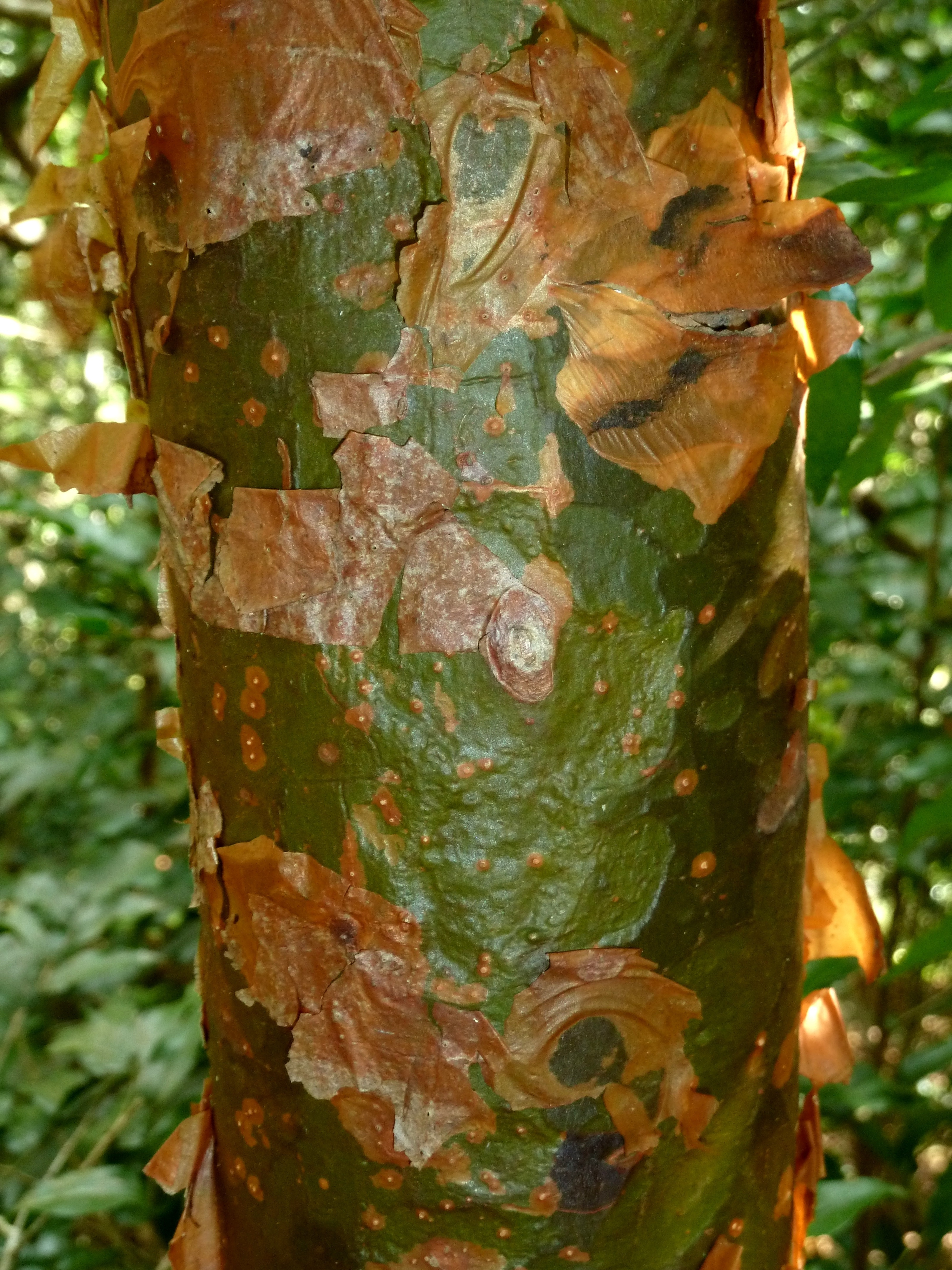 Bark of a Copper-stem corkwood in Krantzkloof Nature Reserve, KwaZulu-Natal